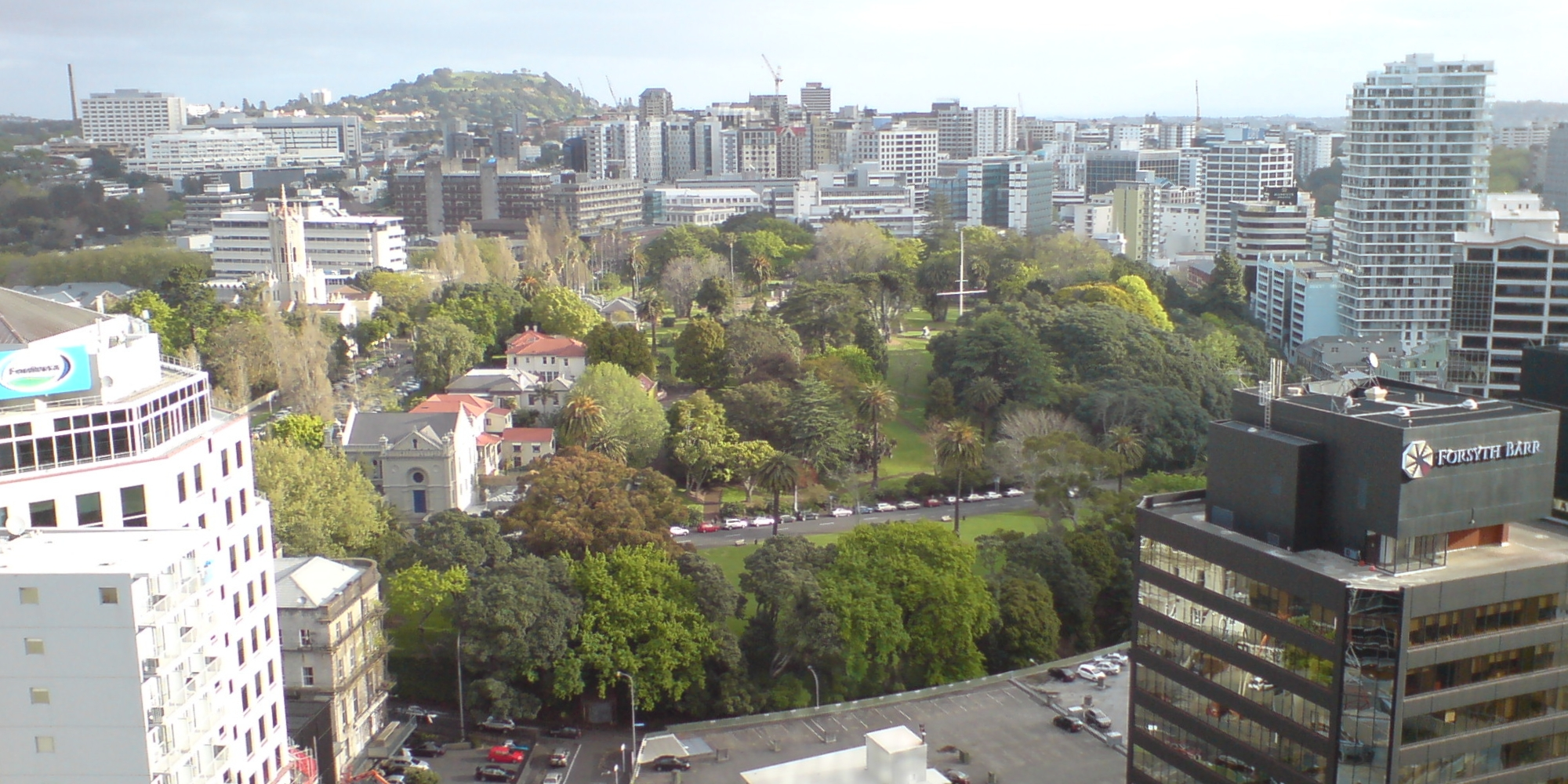 Albert Park Auckland CBD, New Zealand.